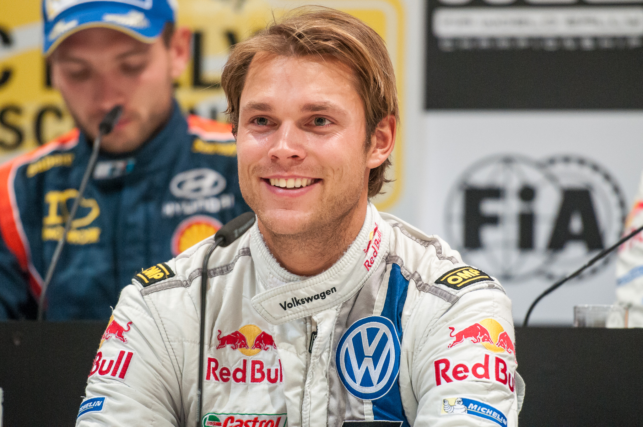 ADAC Rallye Deutschland 2014,Andreas Mikkelsen,FIA,FIA World Rally Championship,Motorsport,Pressekonferenz,Rally,Rallye,Volkswagen Motorsport,WRC